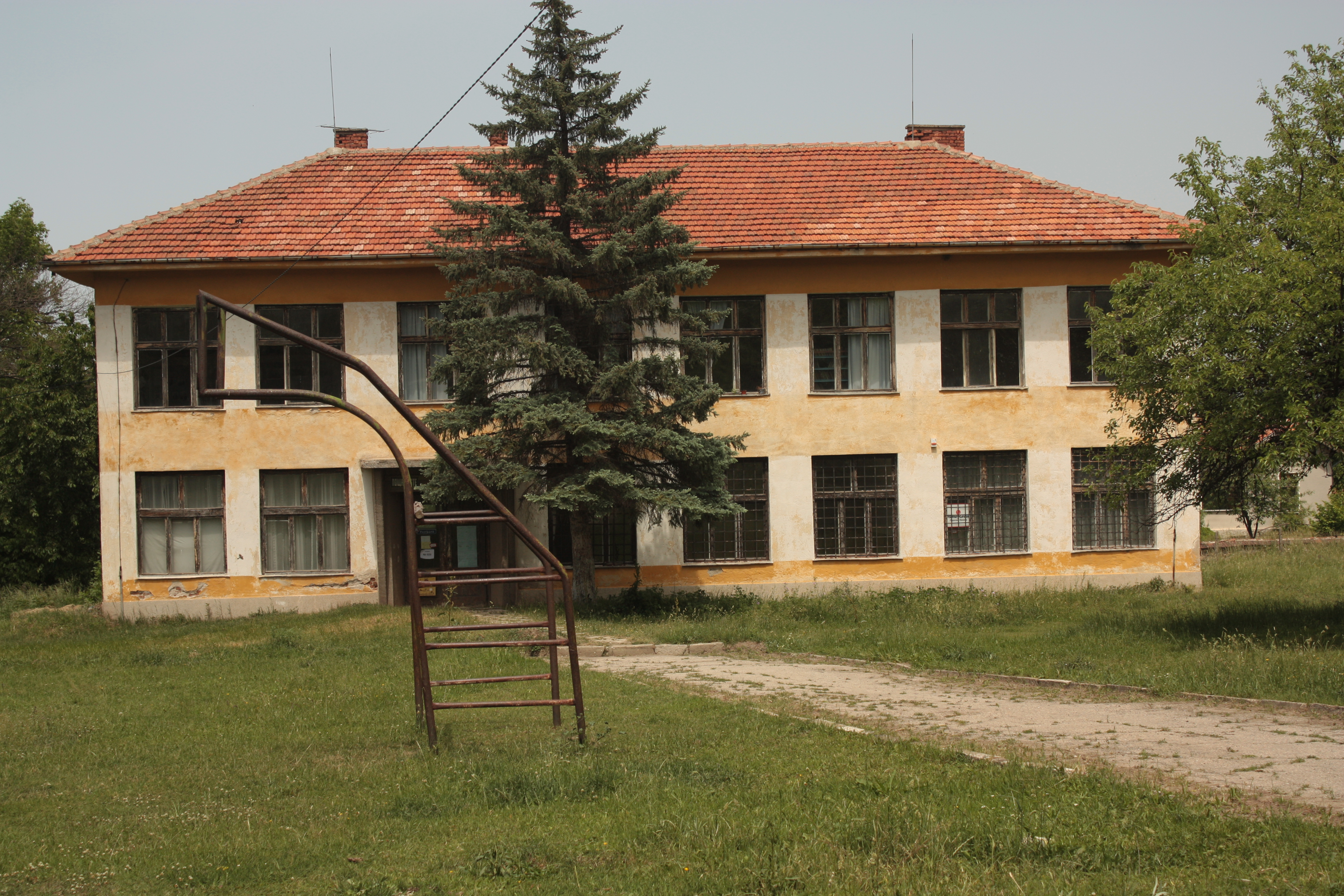 School in Kondofrey, Bulgaria